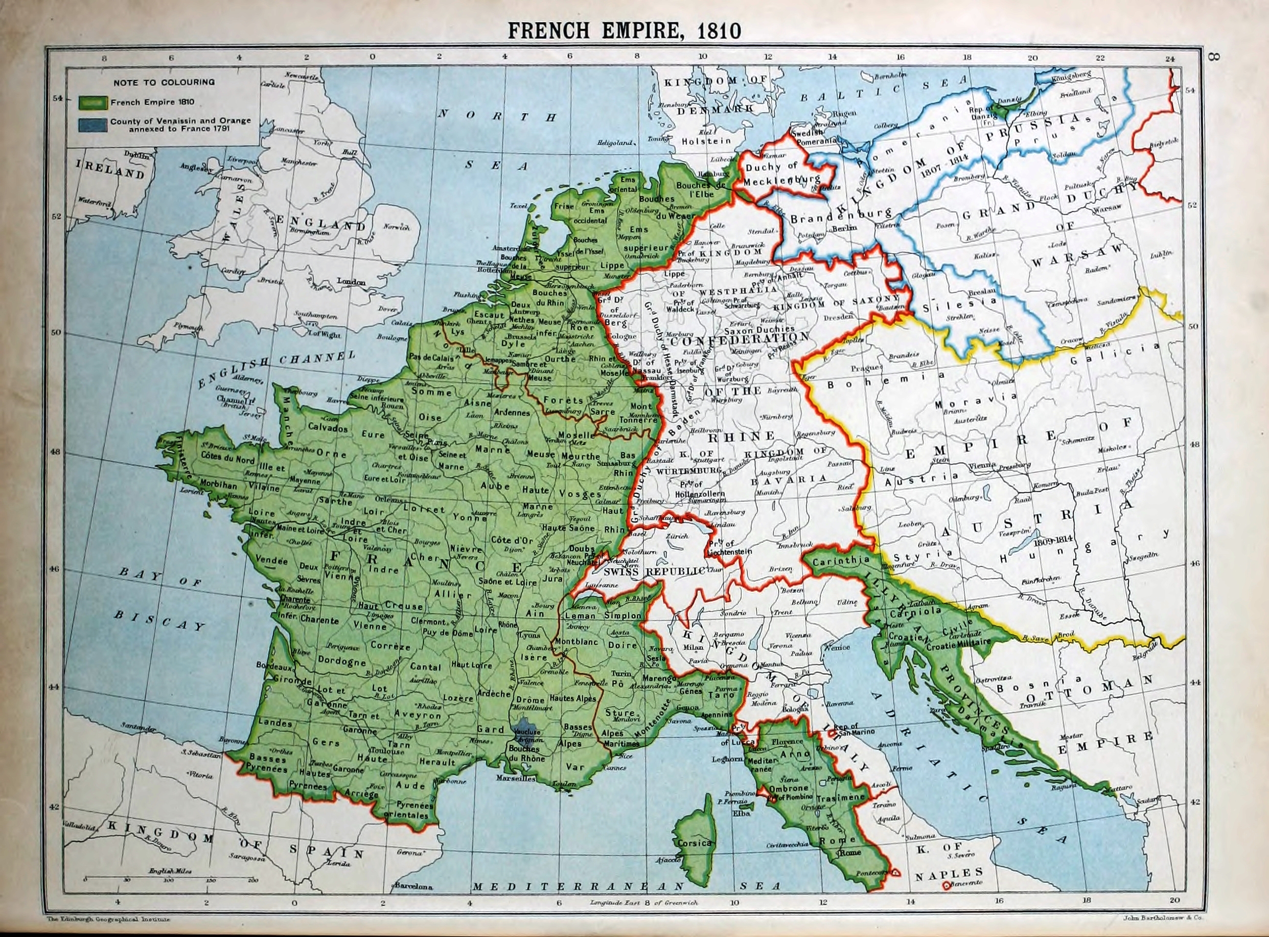 French Empire in 1810, from An historical atlas of modern Europe from 1789-1914, with an historical and explanatory text.